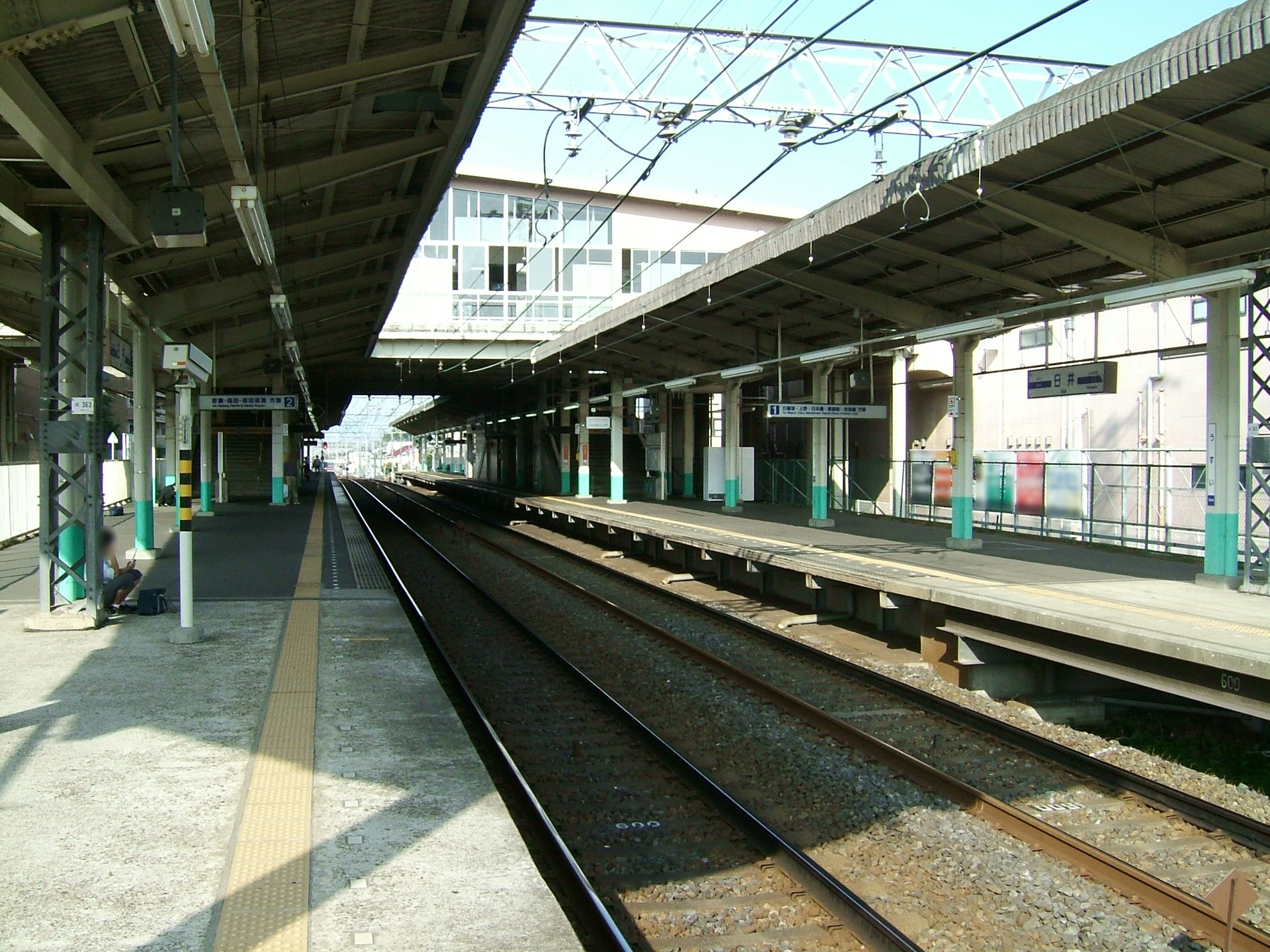 The platforms at Keisei Usui Station on the Keisei Main Line in Sakura city, Chiba prefecture, Japan